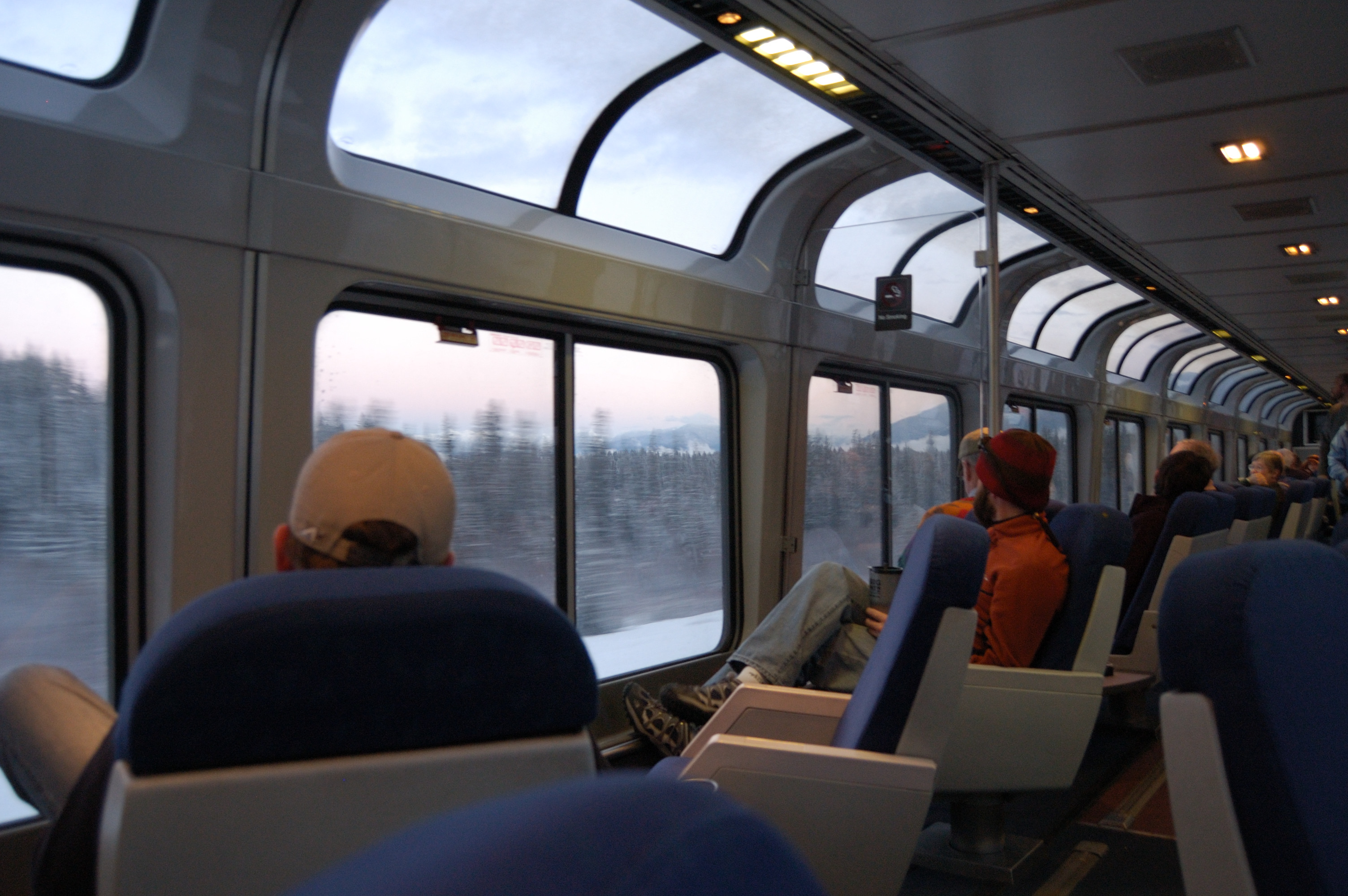 A Superliner Lounge (observation) car on Amtrak's Empire Builder somewhere in Western Montana